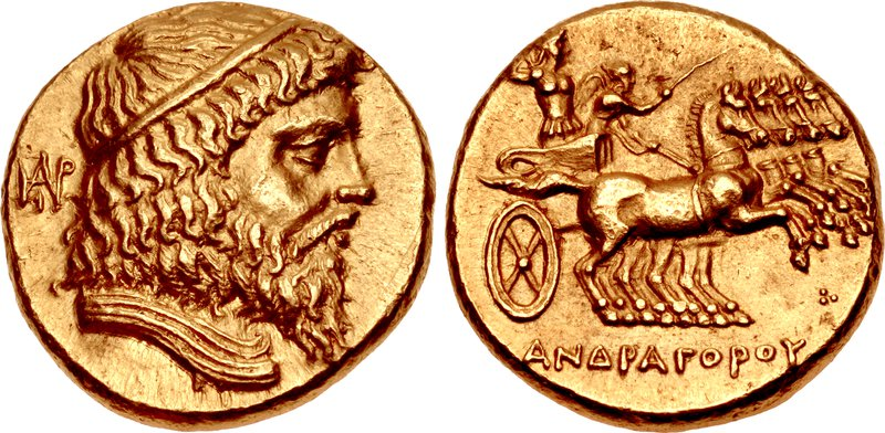 Coin of Andragoras, a Seleucid satrap of Parthia and later independent ruler of the region.